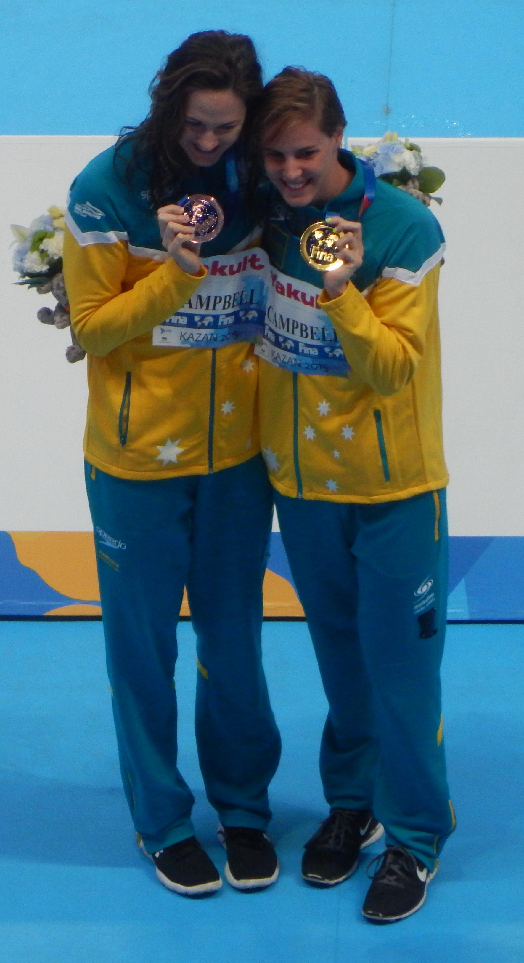 Campbell sisters win gold and bronze at 100m freestyle in Kazan